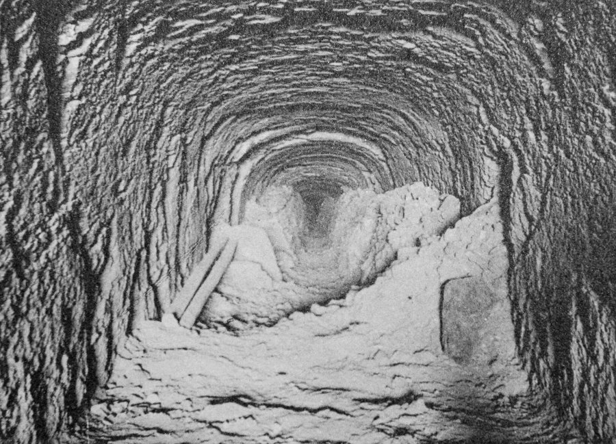 Passage to the tomb of Mentuhotep II at his Mortuary Temple in Deir el-Bahari, excavation by Edouard Naville